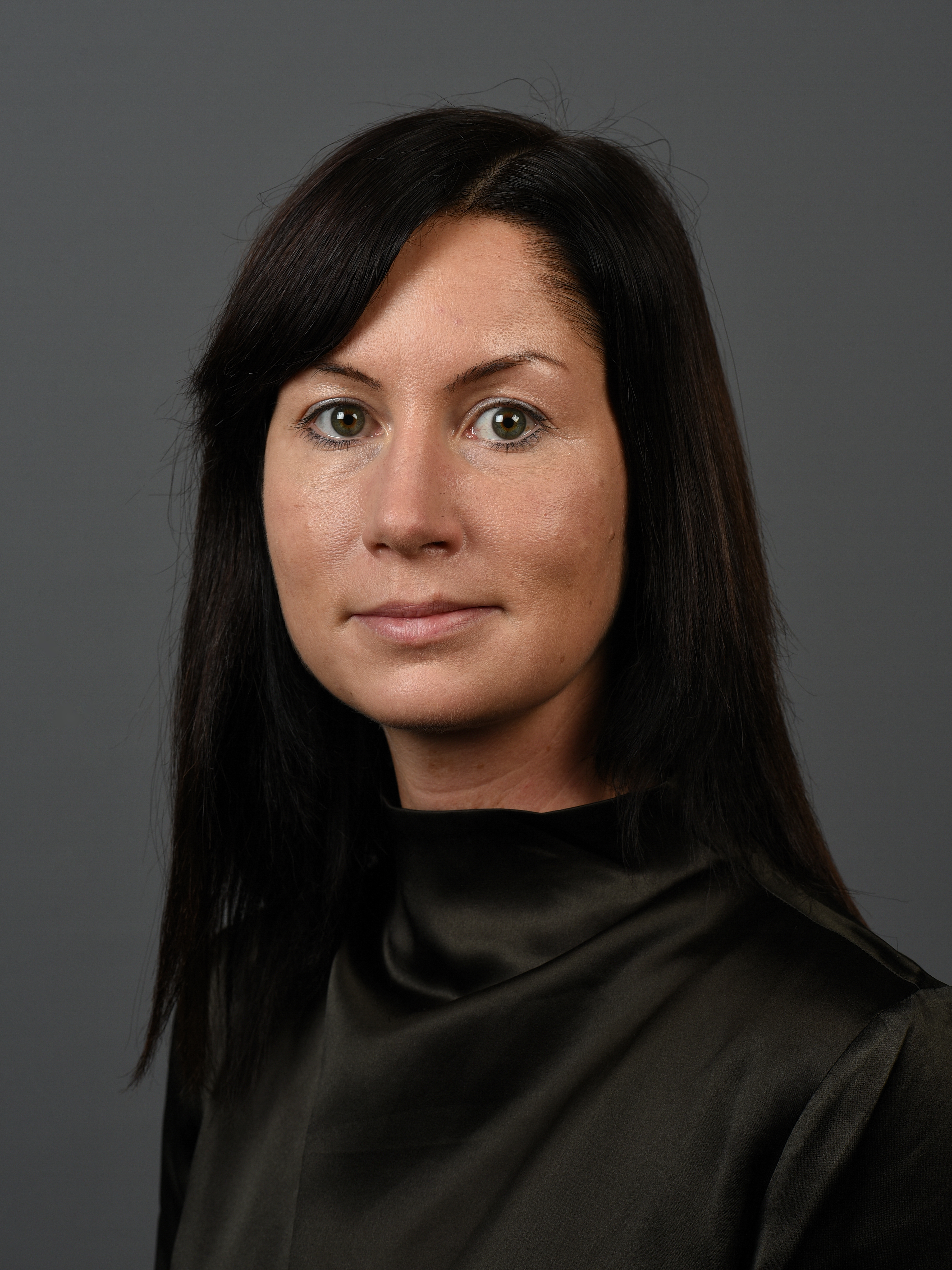 Clara West, SPD, Member of the Abgeordnetenhaus of Berlin, 2017.